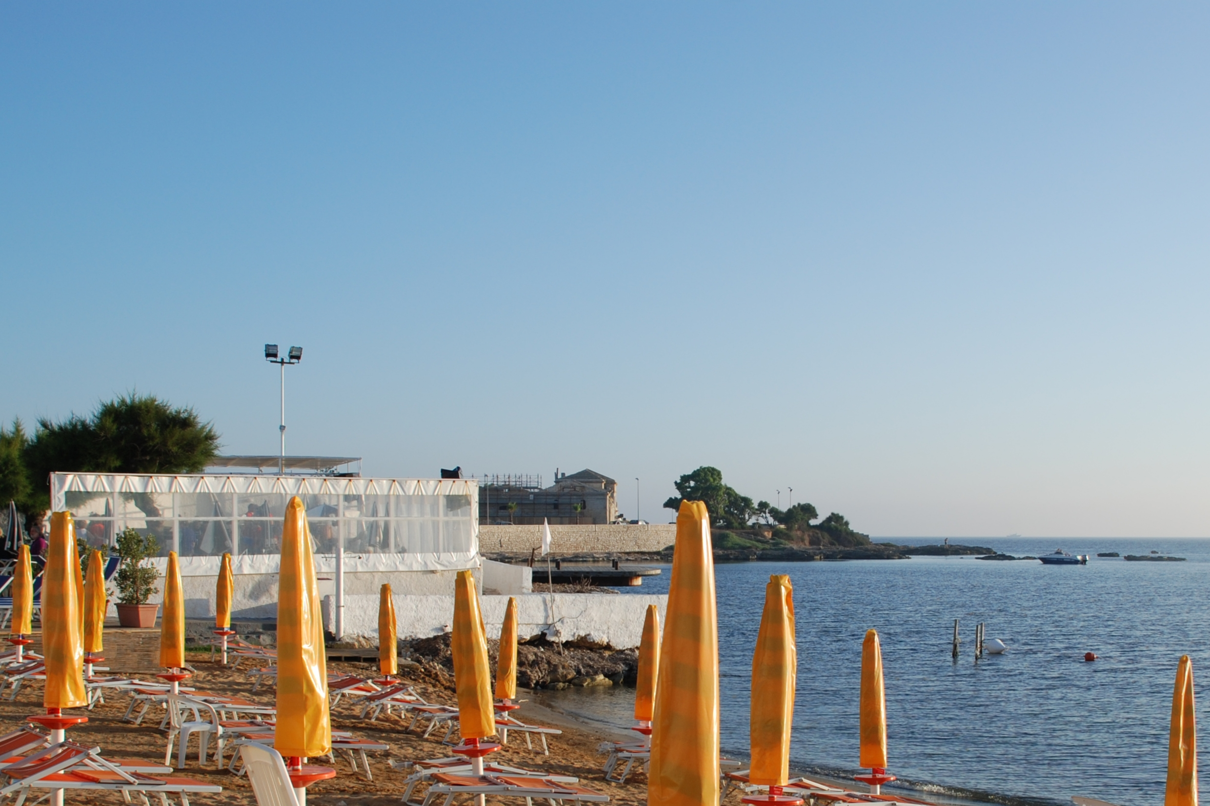 Capo Boeo - Marsala (Sicily)